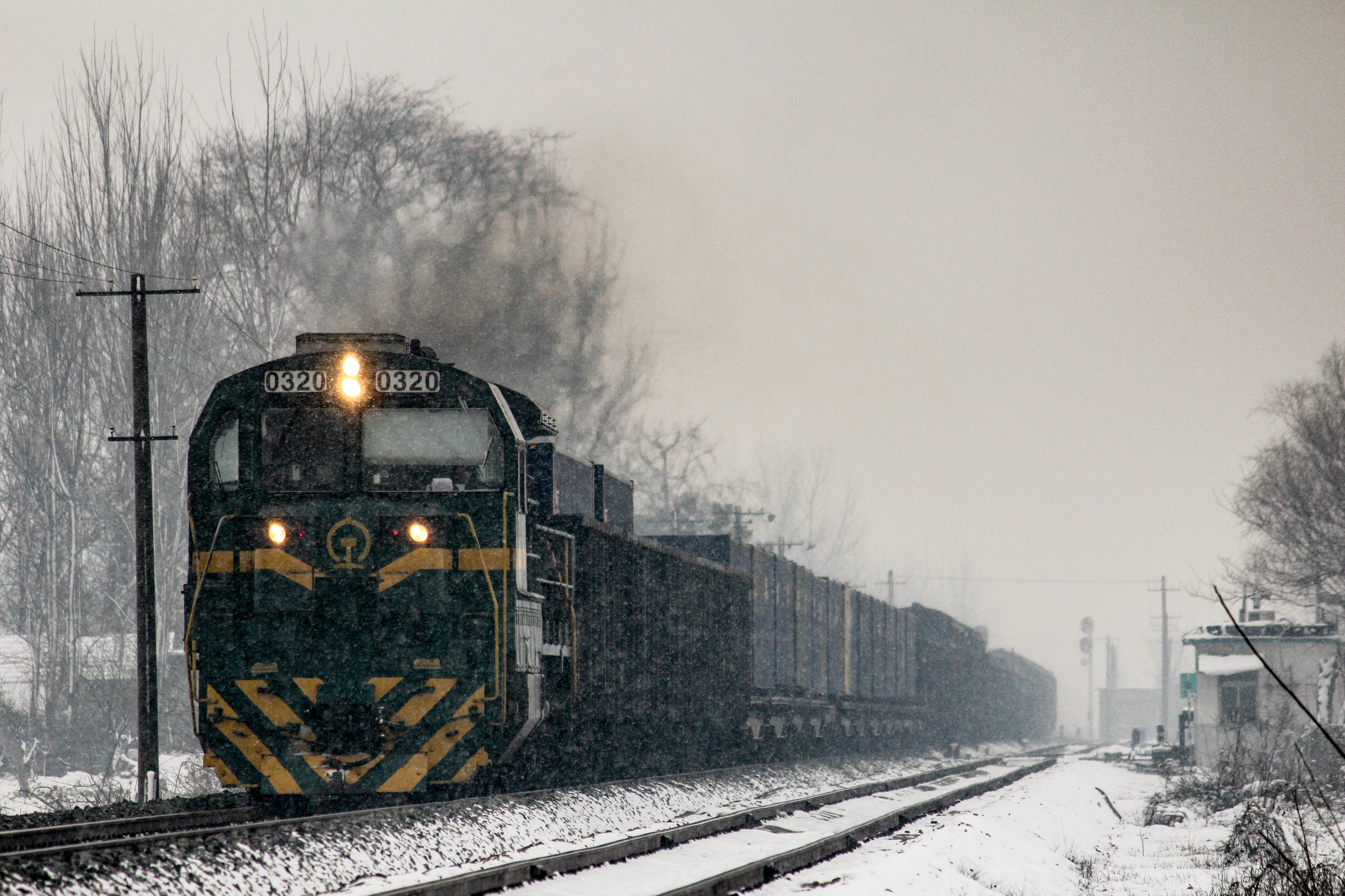 中文（中国大陆）: ND5-0320 in Jiangqiao Station